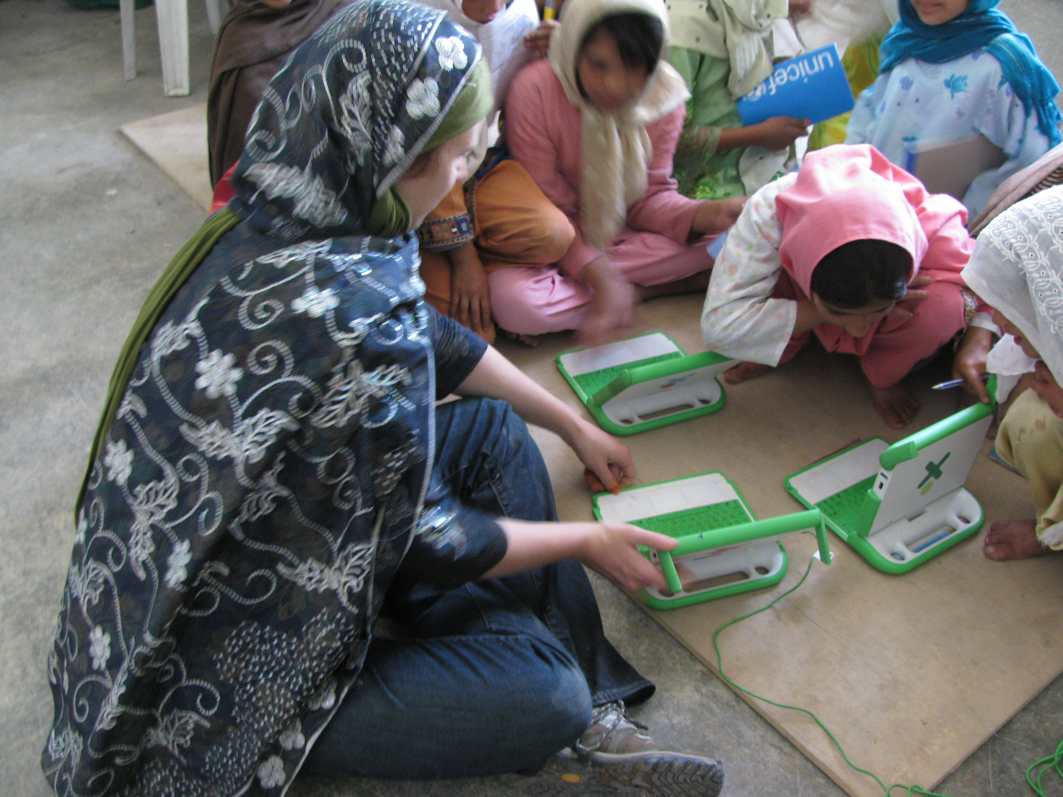 Kate teaching some of the little Afghan girls how to use computers on an OLPC. Yes, this is significant. That a woman can show up to Eastern Afghanistan and teach girls how to use computers is no small achievement. It took a lot of work from some amazing people (thanks Amy and Dave) so that this could happen. There aren't enough desks or chairs, so a piece of plywood is laid down to have a clean-ish place to work.